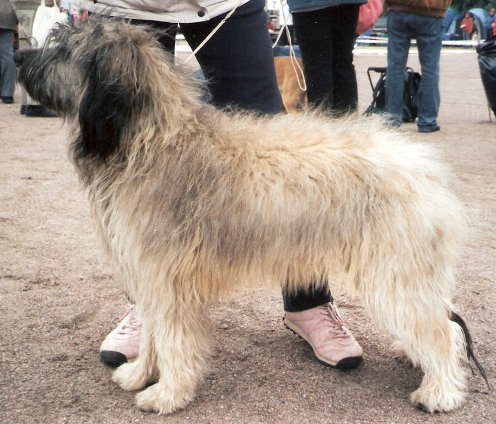 Fawn Catalonian Sheepdog